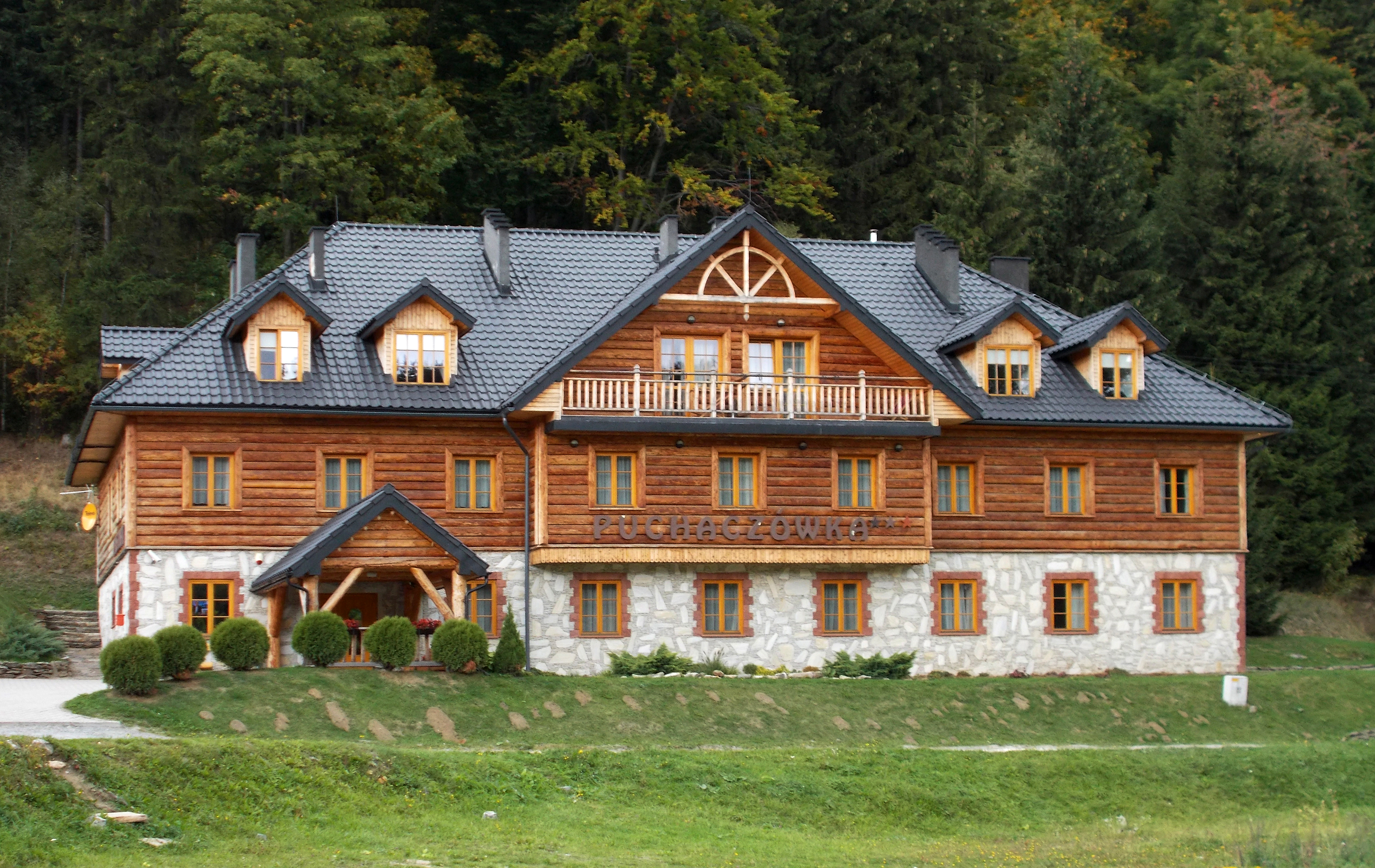 Puchaczówka guesthouse in Sienna